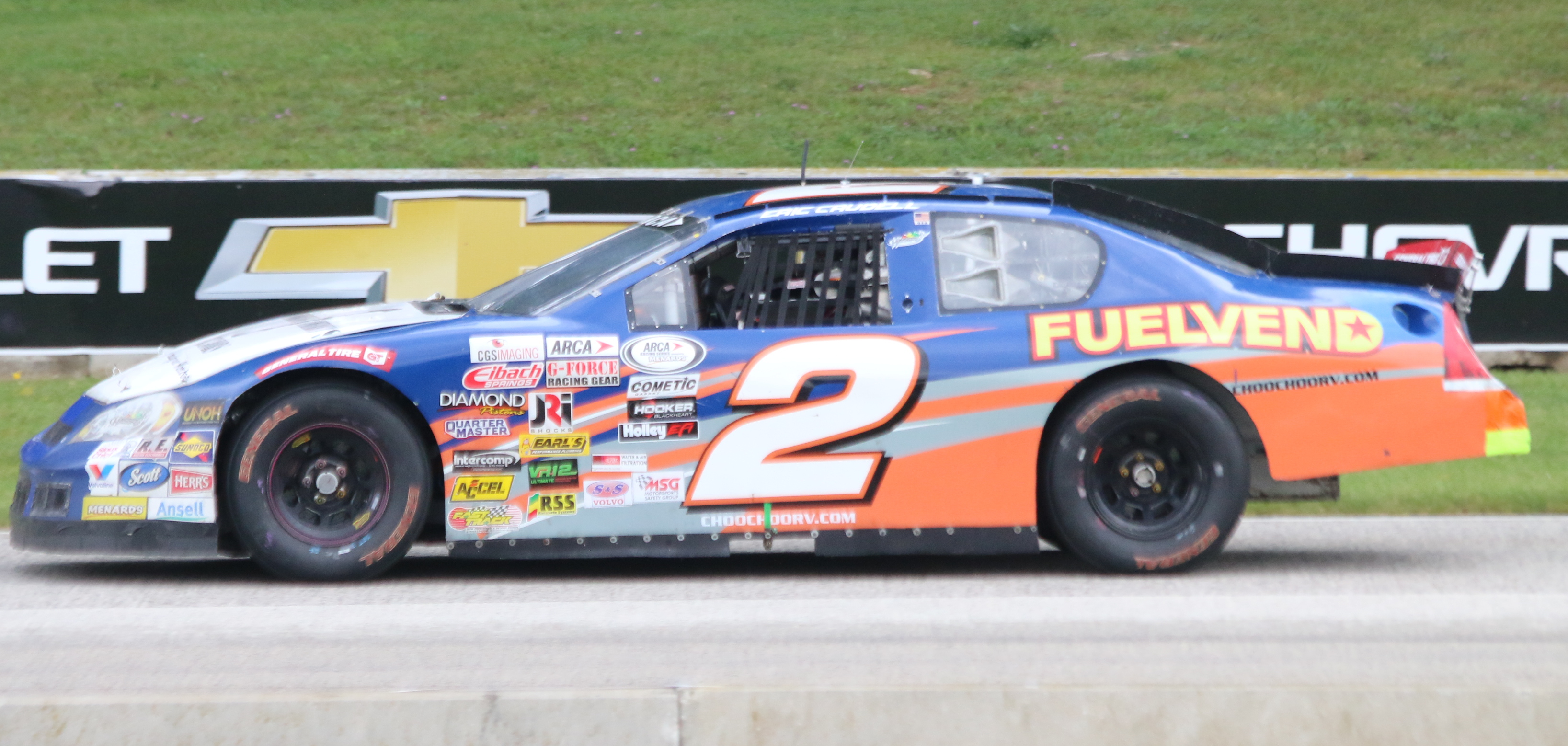 The ARCA Racing Series car of Eric Caudell at the 2017 Road America 100 race.